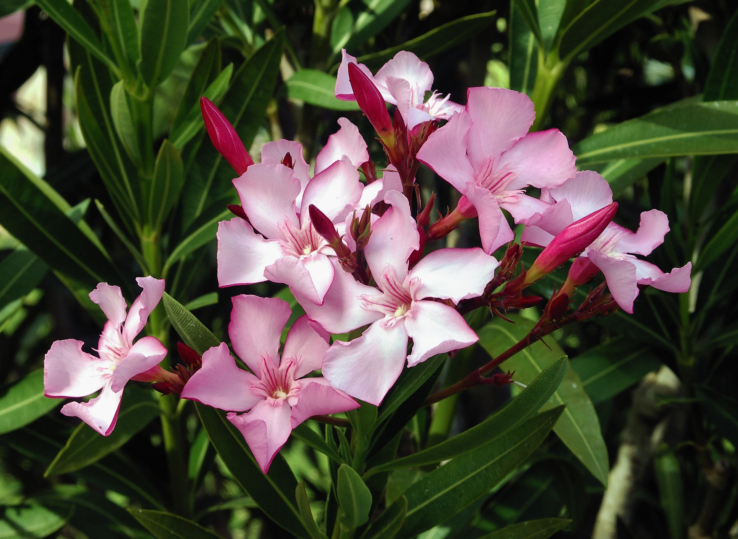 Flowers and leaves of Nerium oleander